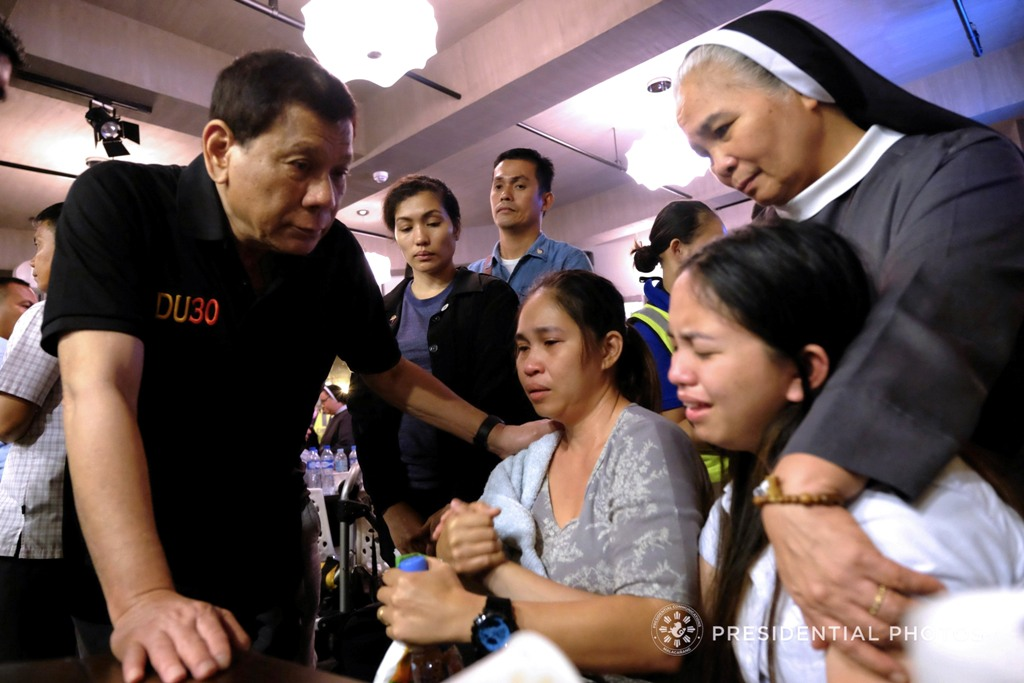 President Rodrigo Roa Duterte consoles the relatives of one of the victims who were trapped inside the NCCC Mall Davao upon hearing the news that their loved ones may have zero chance of survival as the fire inside the mall continues to rage as of dawn of December 24, 2017. KIWI BULACLAC/PRESIDENTIAL PHOTO